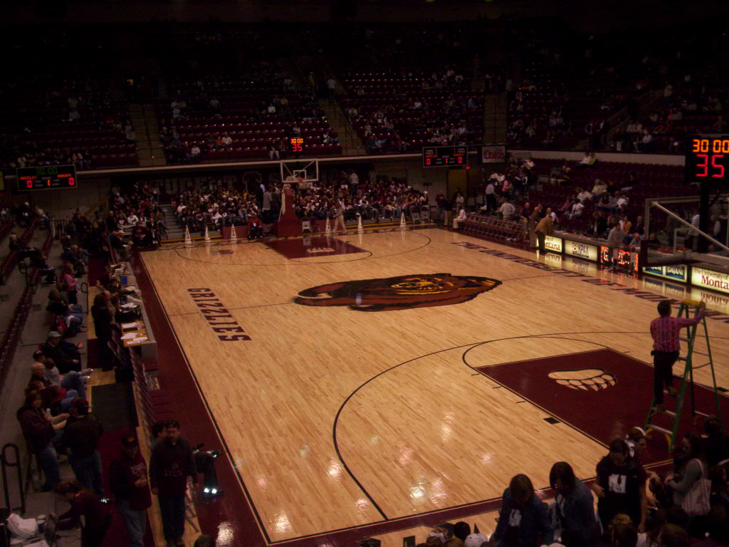 Interior shot of Dahlberg Arena at the University of Montana